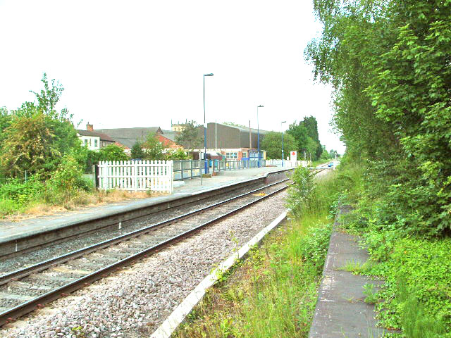 Snaith railway station, Snaith in the East Riding of Yorkshire, England.There used to be a double track until Dr Beeching got his hands on it.